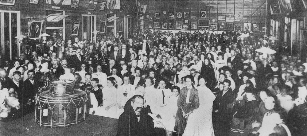 Concert for the elderly at Dunwich Benevolent Asylum, North Stradbroke Island, 1909. Victoria Hall, the main assembly facility within the institution, was used as the entertainment venue for this concert and it is filled to capacity for the event.